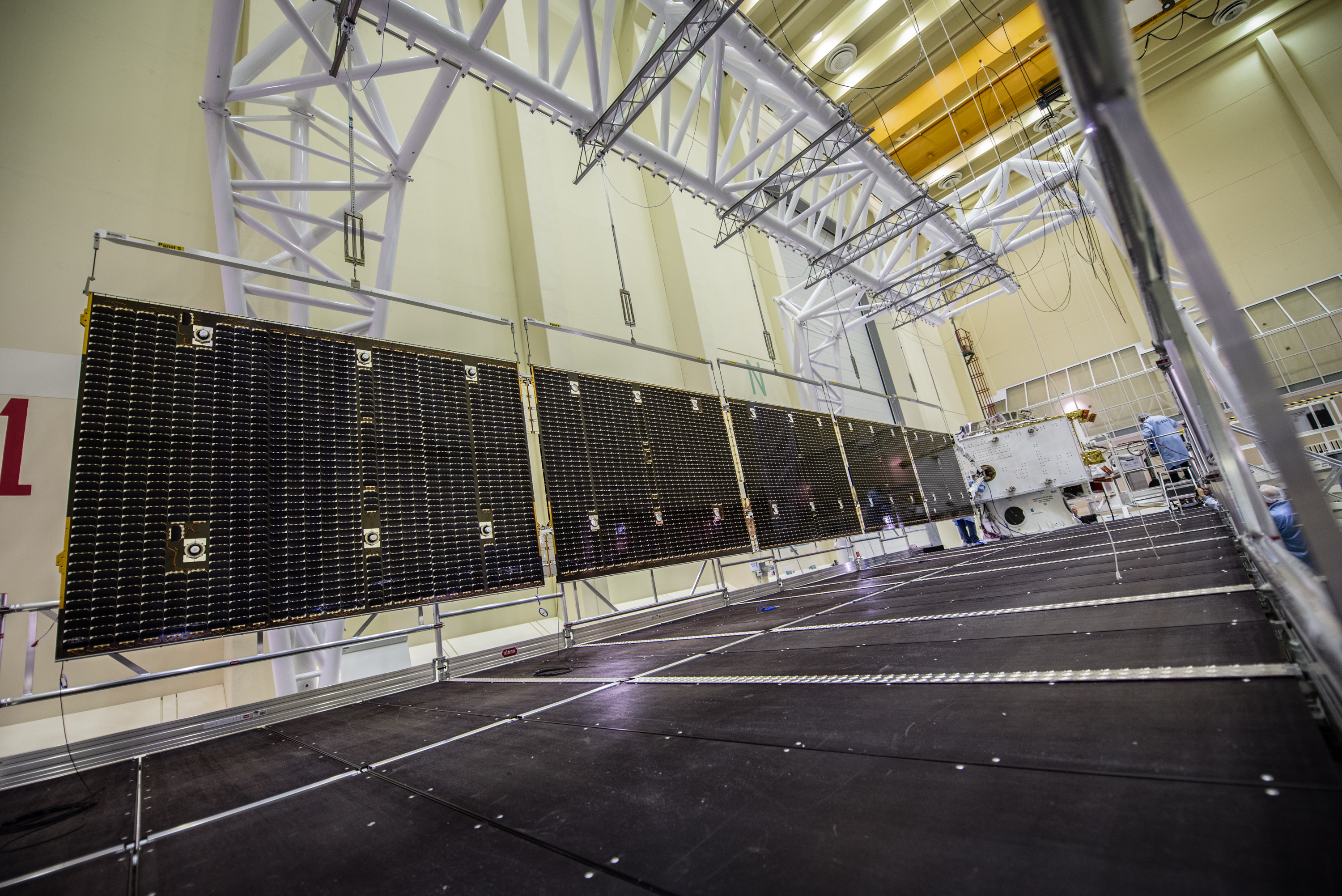 Spanning 14 m from the spacecraft body, this impressive solar wing is one of two attached to ESA’s BepiColombo Mercury Transfer Module. The solar wing deployment mechanisms were tested last month at ESA’s technical centre in the Netherlands as part of final checks ahead of the mission’s October 2018 launch from Europe’s Spaceport in Kourou, French Guiana. During testing, the five panels were supported from above to simulate the weightlessness of space. The wings will be folded against the spacecraft’s body inside the Ariane 5 launch vehicle and will only open once in space. Mechanisms lock each panel segment in place. They can be rotated with the solar array drive mechanism attached to the main body. Despite travelling towards the Sun, the transfer module requires a large solar array. Temperature constraints mean they cannot directly face the Sun for long periods without degrading, so they have to be angled and thus require a greater area to meet BepiColombo’s power demands. The module will use a combination of electric propulsion and multiple gravity-assists at Earth, Venus and Mercury to carry two scientific orbiters to the innermost planet in our Solar System. After the 7.2 year journey, ESA’s Mercury Planetary Orbiter and Japan’s Mercury Magnetospheric Orbiter will separate from the transfer module and enter to their own orbits. They will make complementary measurements of Mercury’s interior, surface, exosphere and magnetosphere. The data will tell us more about the origin and evolution of a planet close to its parent star, providing a better understanding of the overall evolution of our own Solar System as well as exoplanet systems.